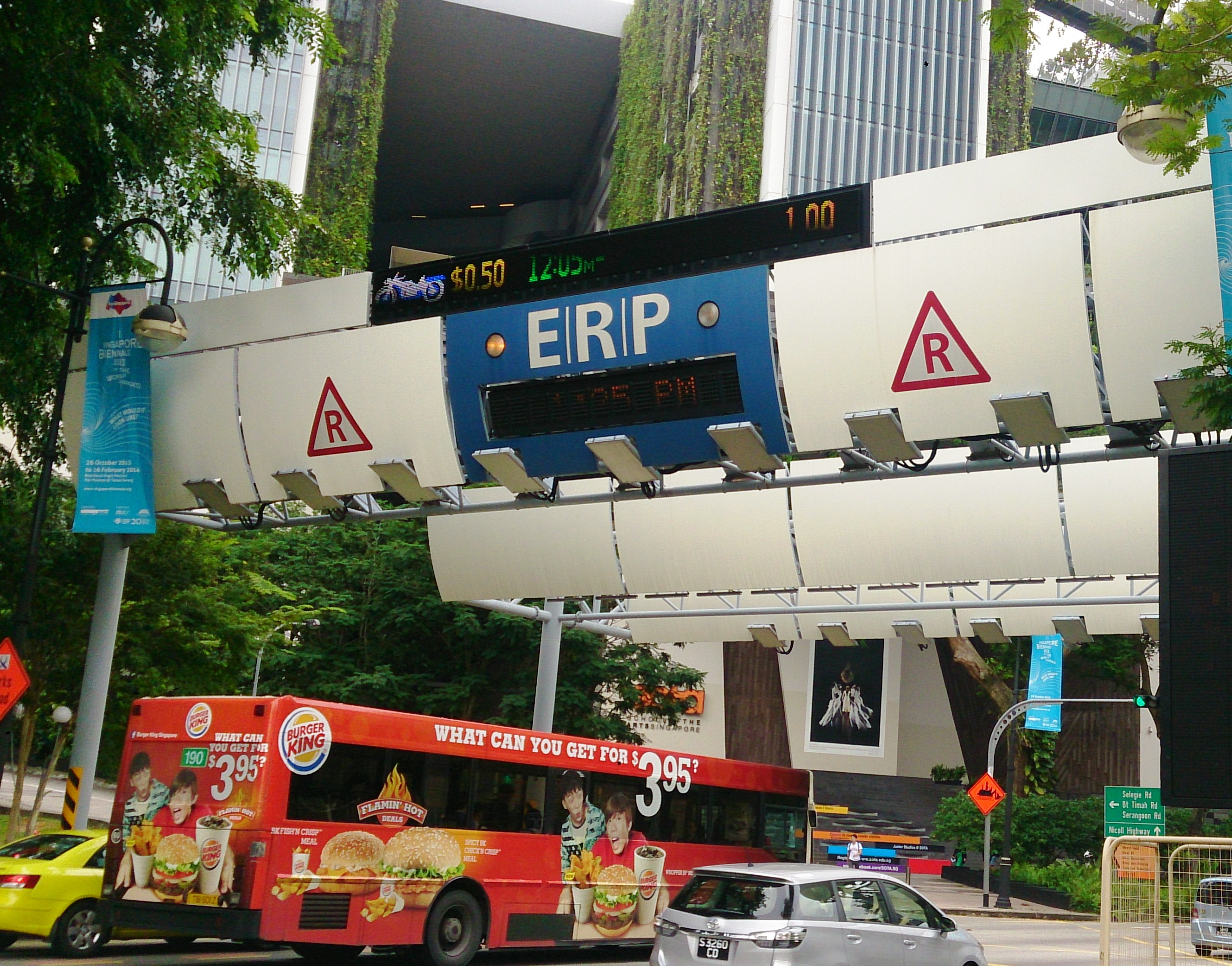 An Electronic Road Pricing gantry along Bras Basah Road, Singapore.